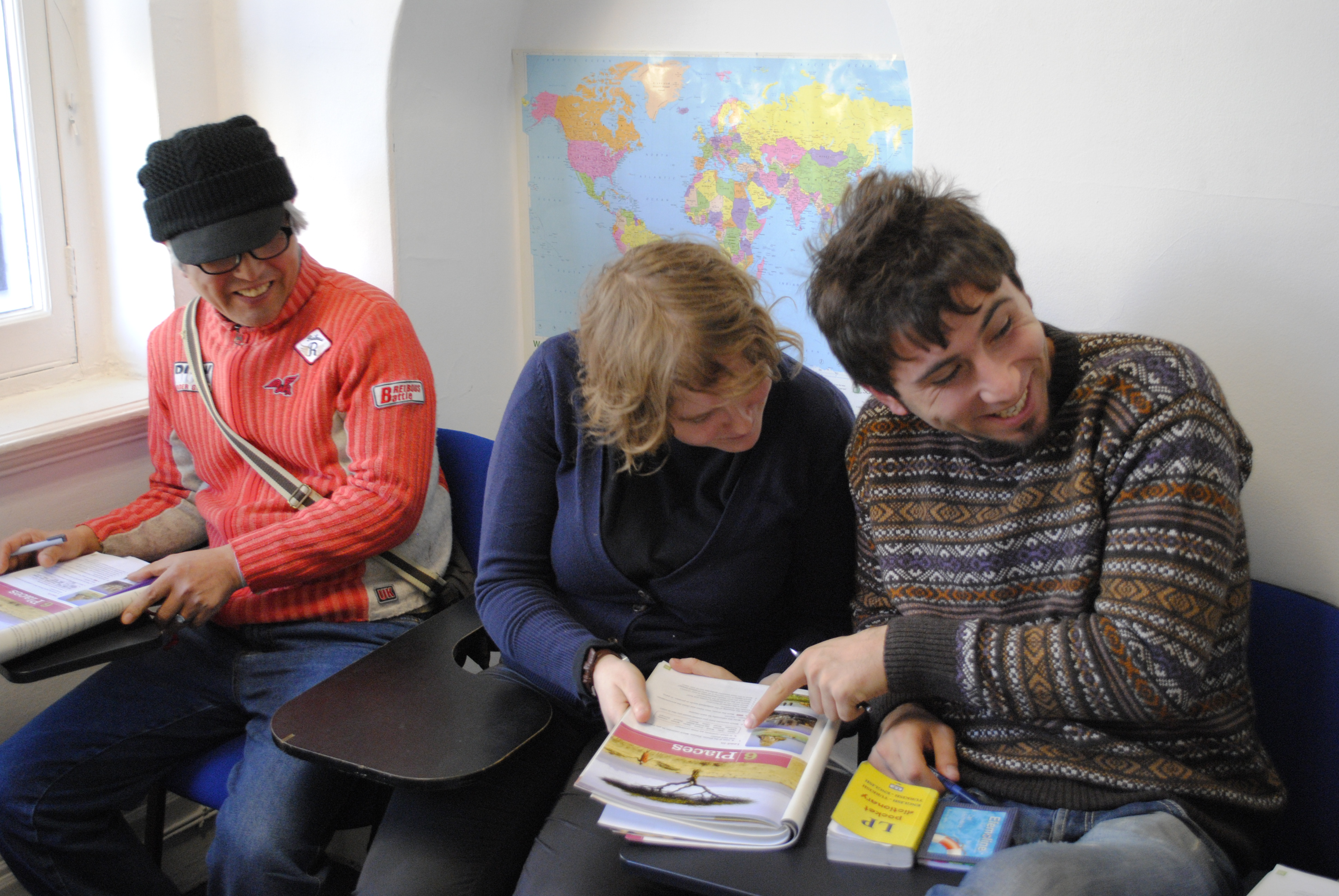 An intermediate language class at Shane Global Language Centre, London, November 2010.